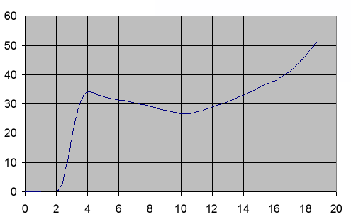 Compression curve at speed = 25 mm/min: load (kN) against displacement (mm). Standardized test cylinders made of glass-epoxy composite (35 mm diameter; 100 mm height). Determination of compression modulus Ec and compression strength σc.